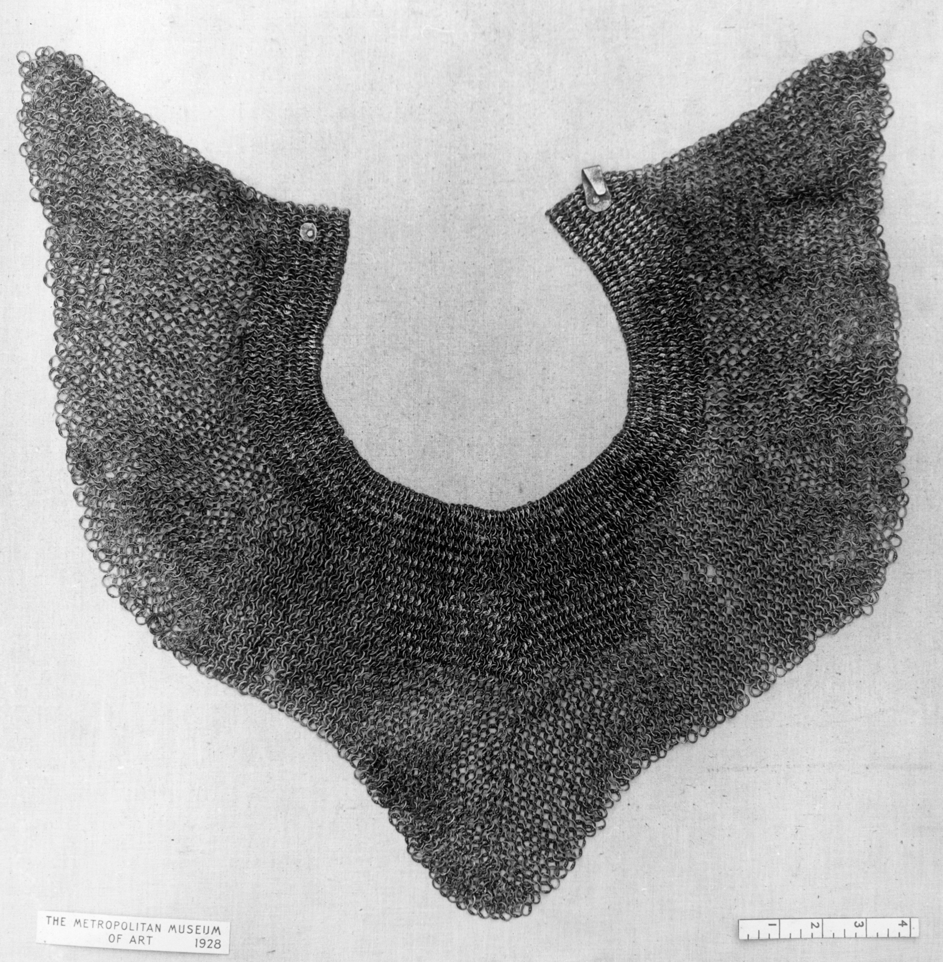 German; Collar of mail; Mail